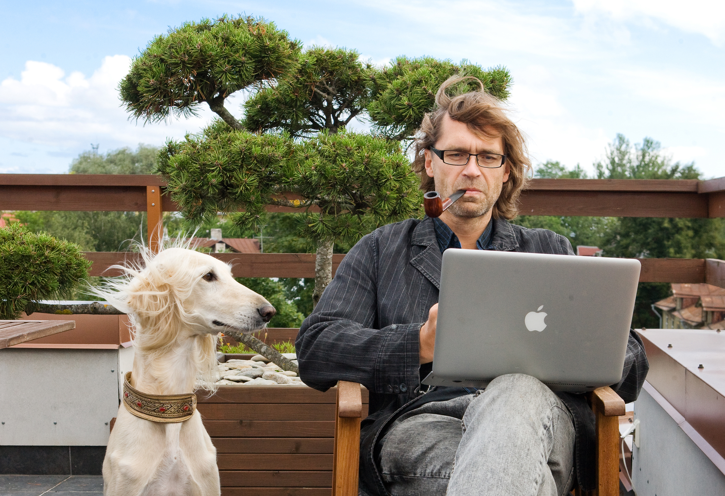 Estonian architect Madis Eek.